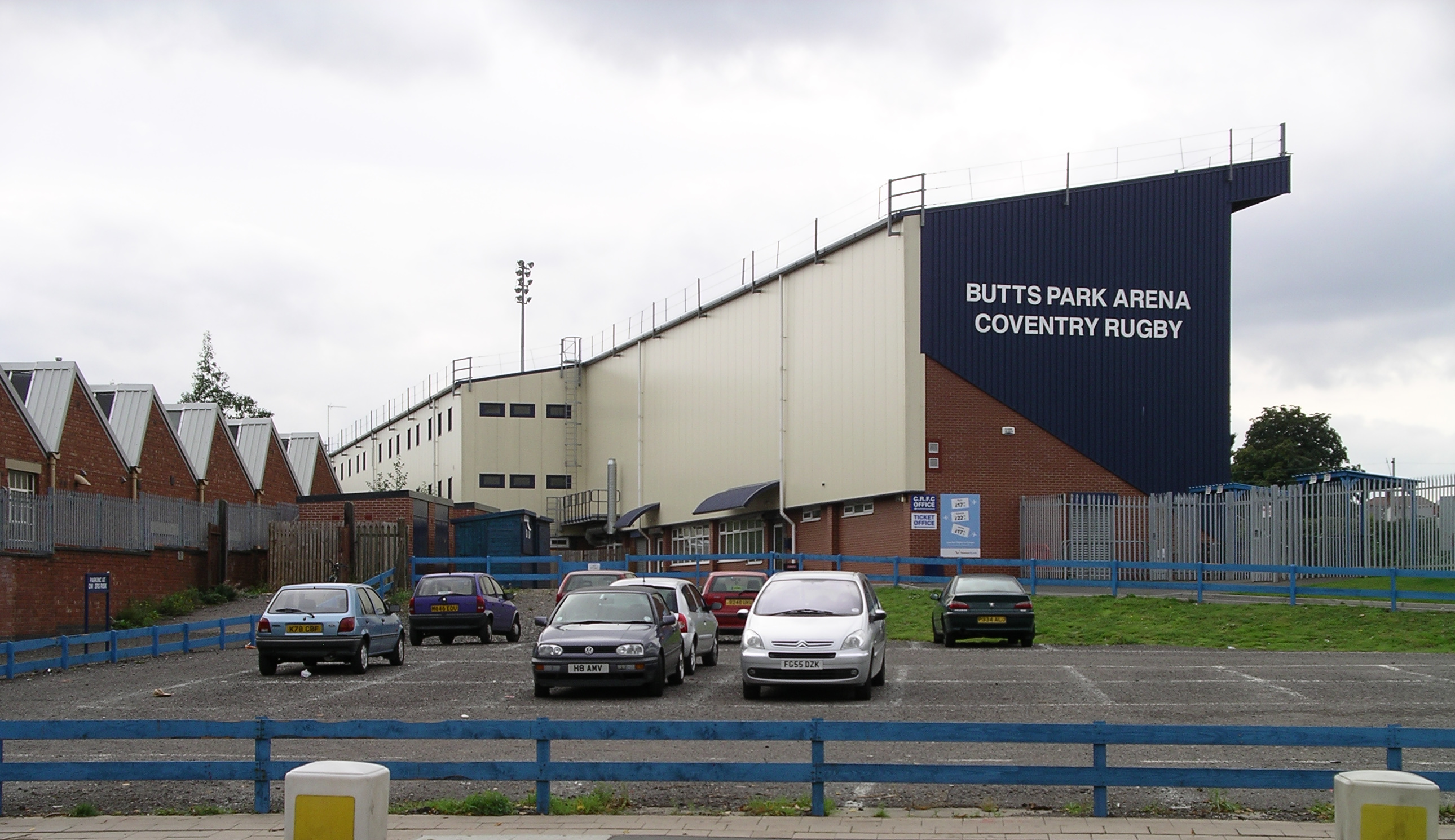 Photo taken by my on the afternoon of 27 Sept 2006 of the Butts Park Arena. Category:Rugby union images